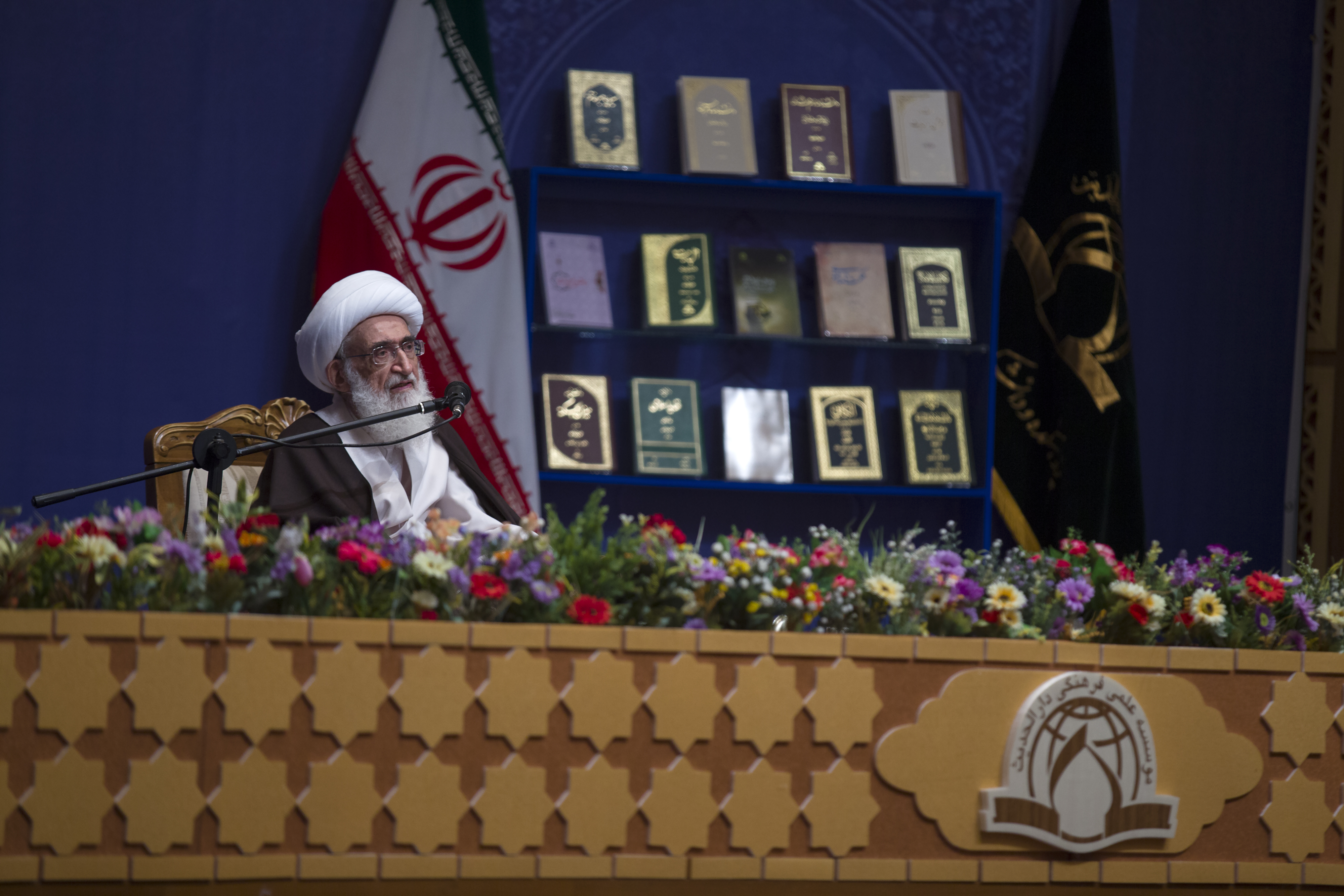 Grand Ayatollah Hossein Noori-Hamedani (born 1925) is an Iranian Twelver Shi'a Marja. Nuri-Hamadani has been called a "hard-line cleric," who has expressed his strong disapproval of Sufis and dervishes, Jews, the intellectual Abdolkarim Soroush and the UN Convention on the Elimination of All Forms of Discrimination Against Women. Hosein Nuri-Hamadani was born in Hamadan, Iran. After finishing elementary studies in Hamadan, at the age of 17 he moved to Qom, Iran to continue his religious studies. He studied in the seminaries of Allameh Tabatabai and Grand Ayatollah Borujerdi. He currently resides and teaches in the Seminary of Qom.